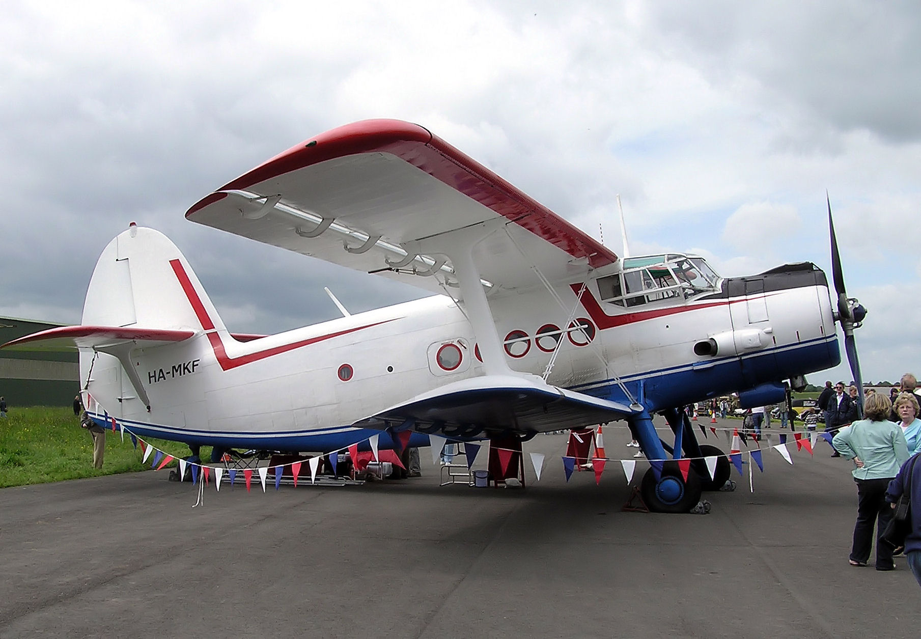 Antonov An-2 biplane (with Hungarian registration HA-MKF) at the 10th anniversary G-VFWE meeting (Great Vintage Flying Weekend) at Keevil Airfield, Wiltshire, England. This aircraft was built in Poland in 1980.